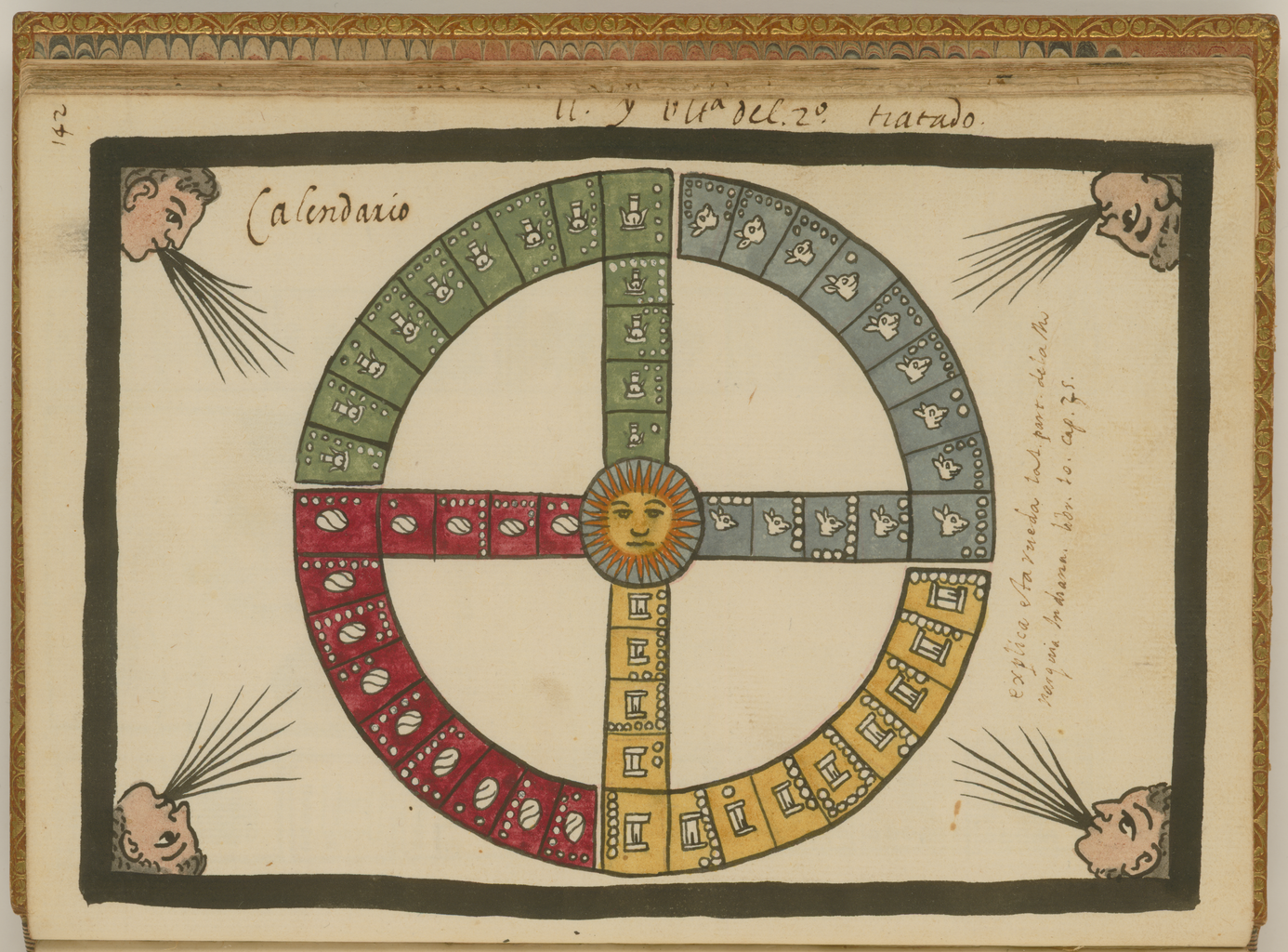 The Tovar Codex, attributed to the 16th-century Mexican Jesuit Juan de Tovar, contains detailed information about the rites and ceremonies of the Aztecs (also known as Mexica). The codex is illustrated with 51 full-page paintings in watercolor. Strongly influenced by pre-contact pictographic manuscripts, the paintings are of exceptional artistic quality. The manuscript is divided into three sections. The first section is a history of the travels of the Aztecs prior to the arrival of the Spanish. The second section is an illustrated history of the Aztecs. The third section contains the Tovar calendar, which records a continuous Aztec calendar with months, weeks, days, dominical letters, and church festivals of a Christian 365-day year. This illustration, from the third section, shows the Aztec Tonalpohualli calendar with a sun at the center of the wheel. The Aztecs used two calendars to compute the days of the year. Xiuhpohualli (the first, or solar, calendar) consisted of 365 days, divided into 18 months of 20 units each, plus an additional period of five empty or unlucky days at the end of the year. Tonalpohualli (the second, or "day count," calendar) had a cycle made up of 260 days, combinations of 13 numbers and 20 symbols. The second calendar was divided into four sections: the acatl (reed), the tochtli (rabbit), the calli (house), and the tecpatl (flint). The acatl section of the calendar wheel is green, the color of the paradise of Tamoanchan (the Aztec equivalent of the Garden of Eden), and represents the east. The tochtli section is blue and represents the south. The calli section is in white (here the artist has used yellow) and represents the west. The tecpatl section is the color of sacrifice or red and represents the north. Aztec calendar; Aztecs; Calendars; Codex; Indians of Mexico; Indigenous peoples; Mesoamerica; Tovar Codex